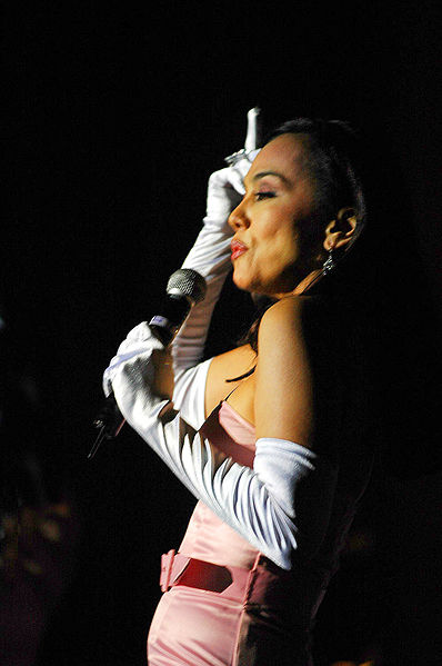 (Original text: Kuh Ledesma, Philippine pop and jazz singer.)